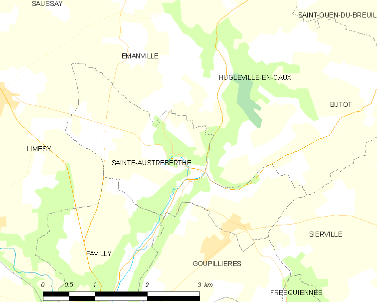 Map of French municipality Sainte-Austreberthe